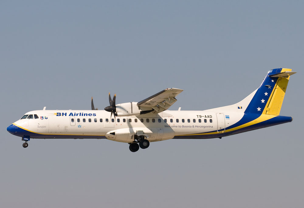 B&H Airlines ATR72-212 Zurich Airport